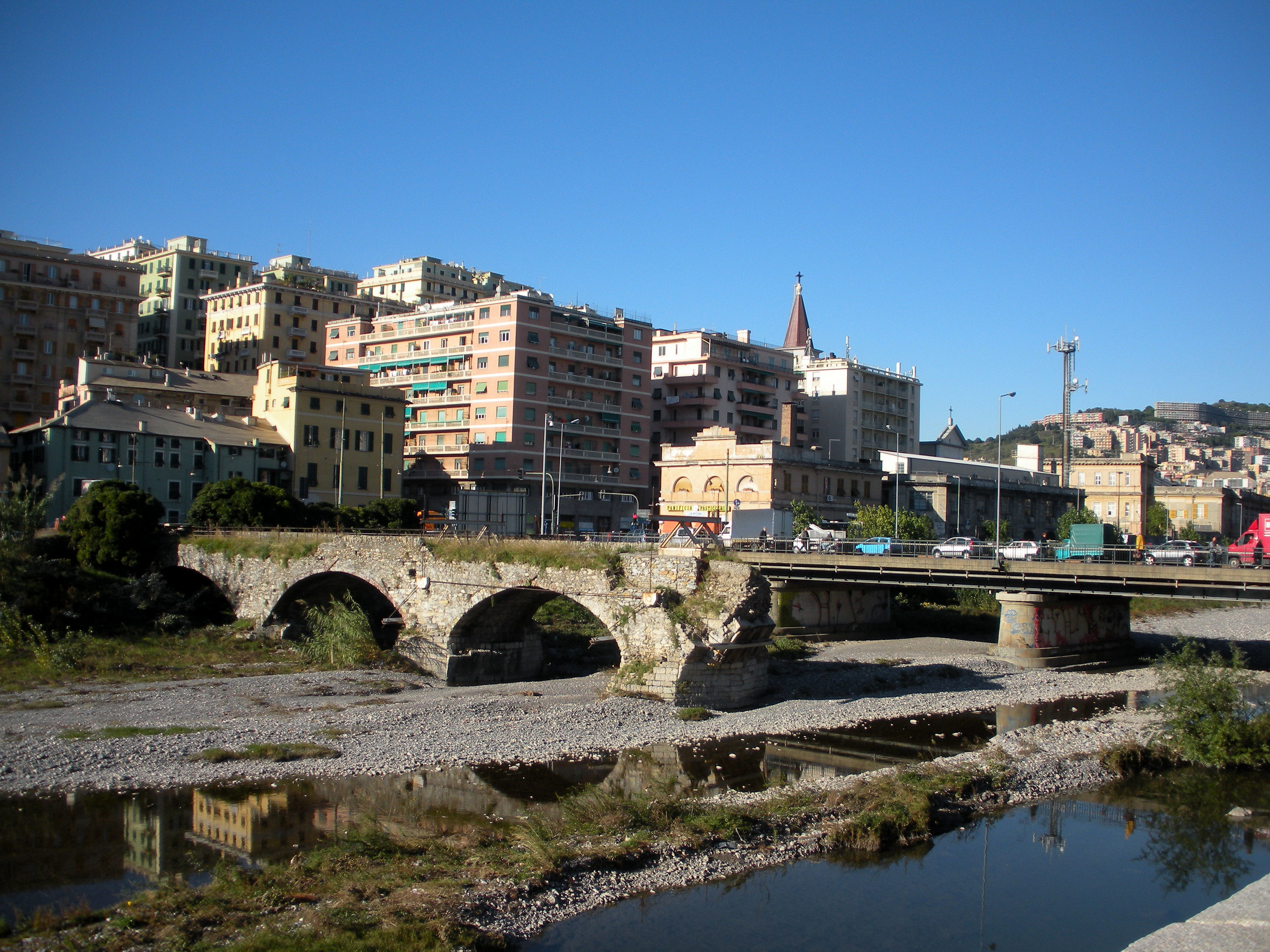 Genoa, San Fruttuoso, the ruins of the old St. Agata bridge